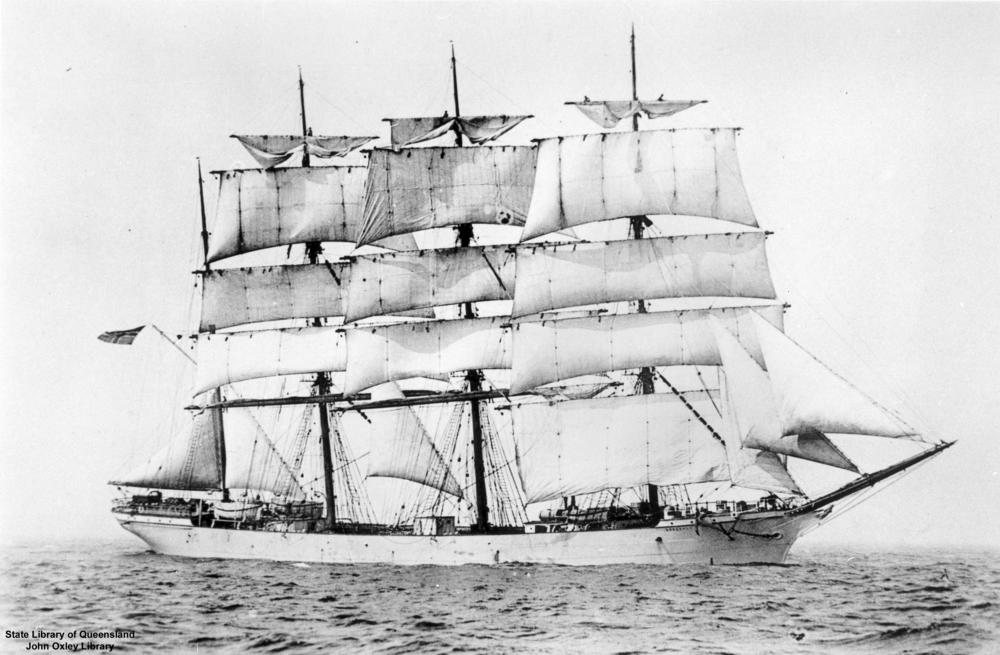 Carradale (ship), ca. 1914. Carradale was a four masted sailing ship and she sailed under the Norwegian flag at this time.